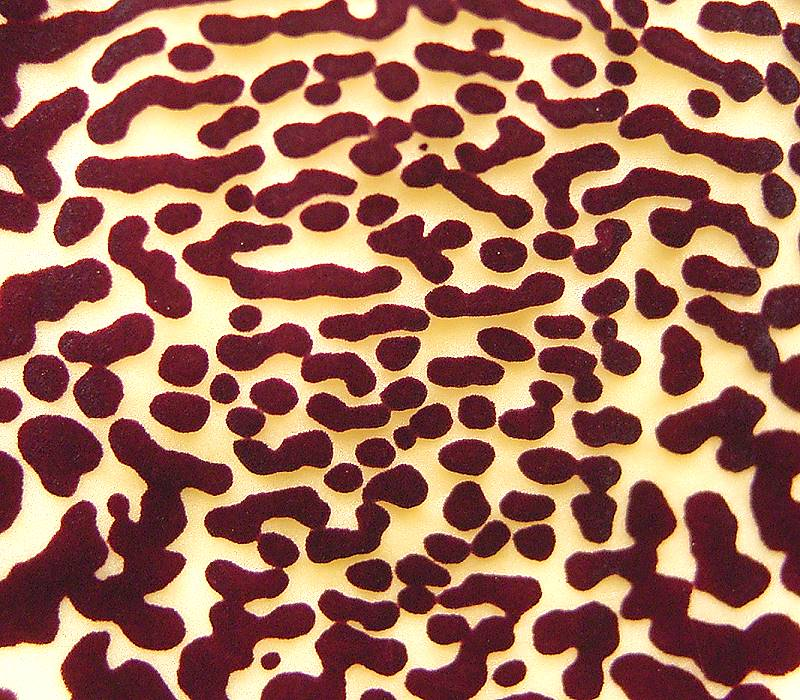 Edithcolea grandis var. baylissiana